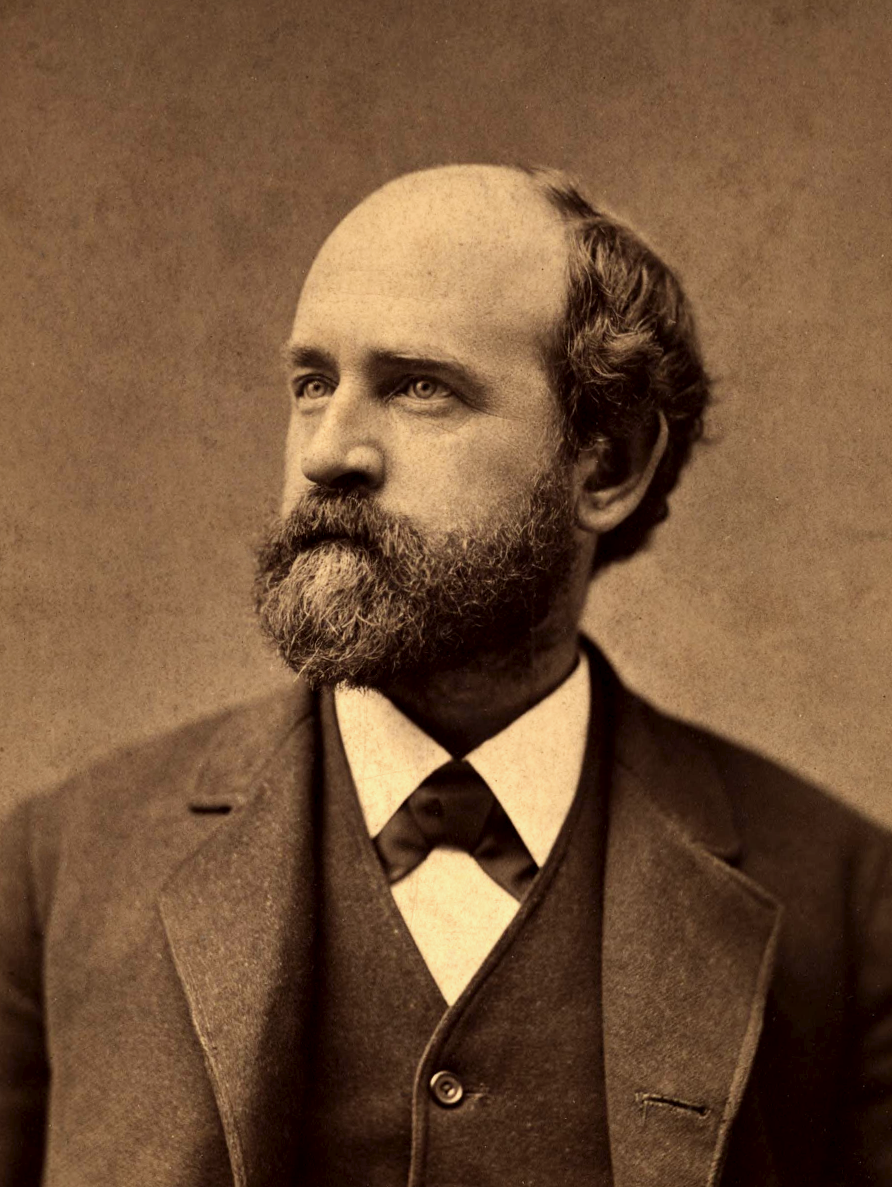 Portrait photograph of Henry George. A 1904 biography by Henry George, Jr. dates this photograph to "shortly after writing Progress and Poverty," a book published in 1879.